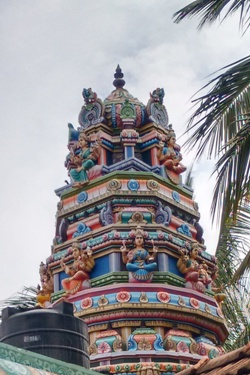 Kumbakonam bhavaniamman temple கும்பகோணம் பவானியம்மன் கோயில்